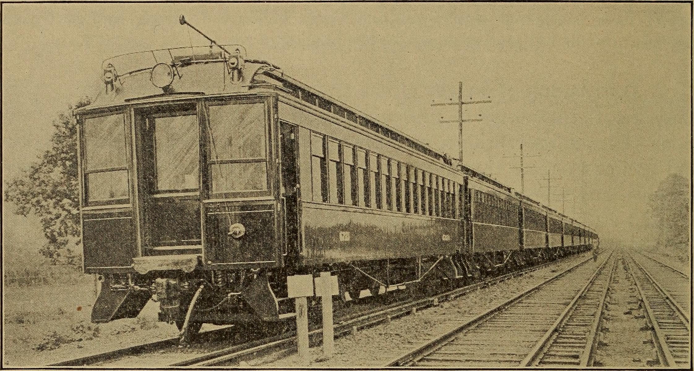 Title: Electric traction for railway trains; a book for students, electrical and mechanical engineers, superintendents of motive power and others .. Year: 1911 (1910s) Authors: Burch, Edward P. (Edward Parris), 1870-1945 Subjects: Railroads Publisher: New York (etc.) McGraw-Hill Book Company West Jersey & Seashore Railroad Motor-car Train. Altantic City-Cam den, New Jersey. Direct-current, third-rail equipment, 1906.